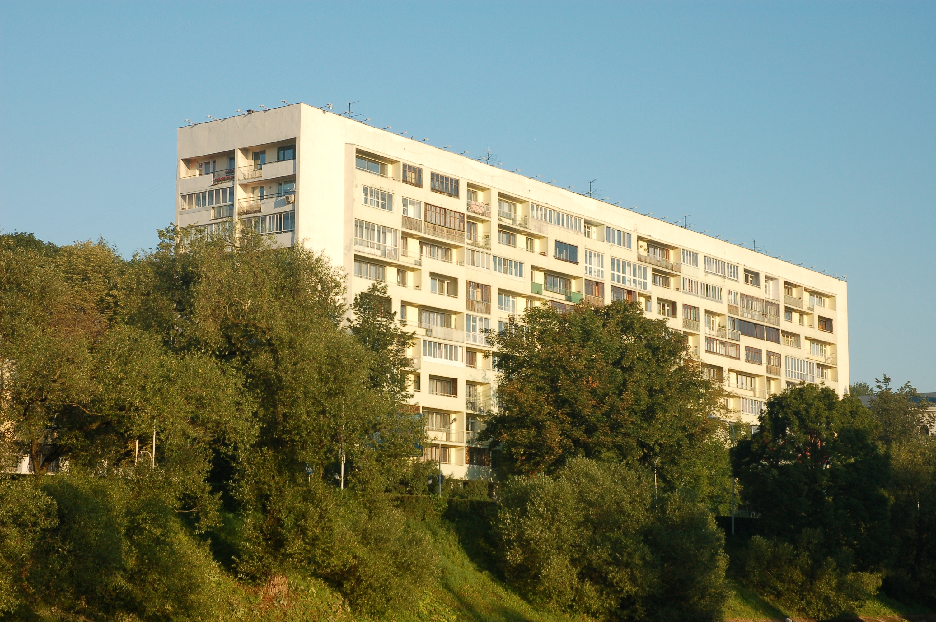 Minsk, 7 Yanka Kupala Street